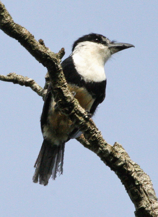 Buff-bellied Puffbird at Iguazú National Park - Misiones - Argentina